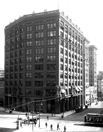 The Hammond Building, Detroit, Michigan, Architect: Harry W. J. Edbrooke. demolished in 1956